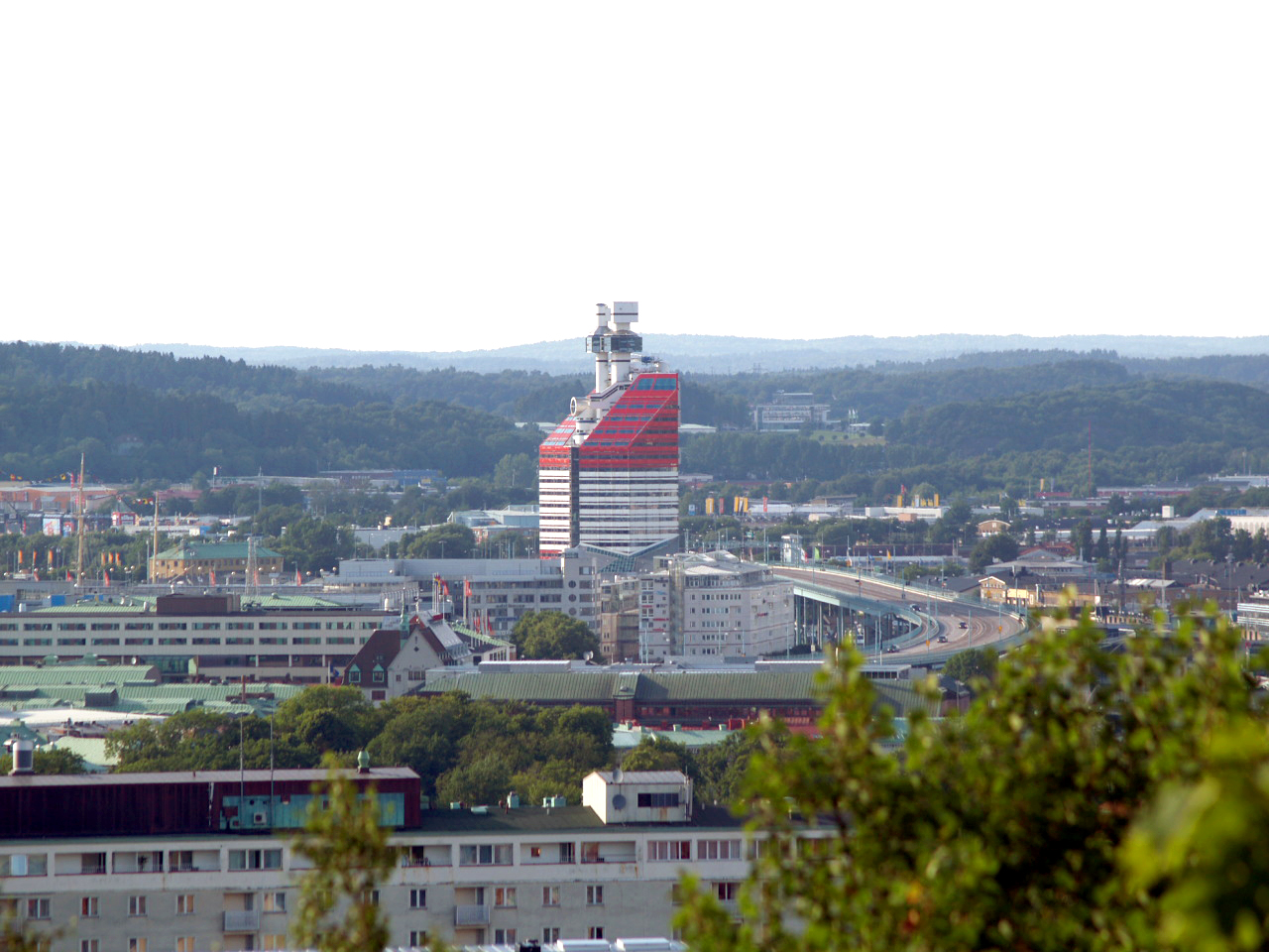 The Skanska building (Lilla Bommen) in Gothenburg, Sweden.